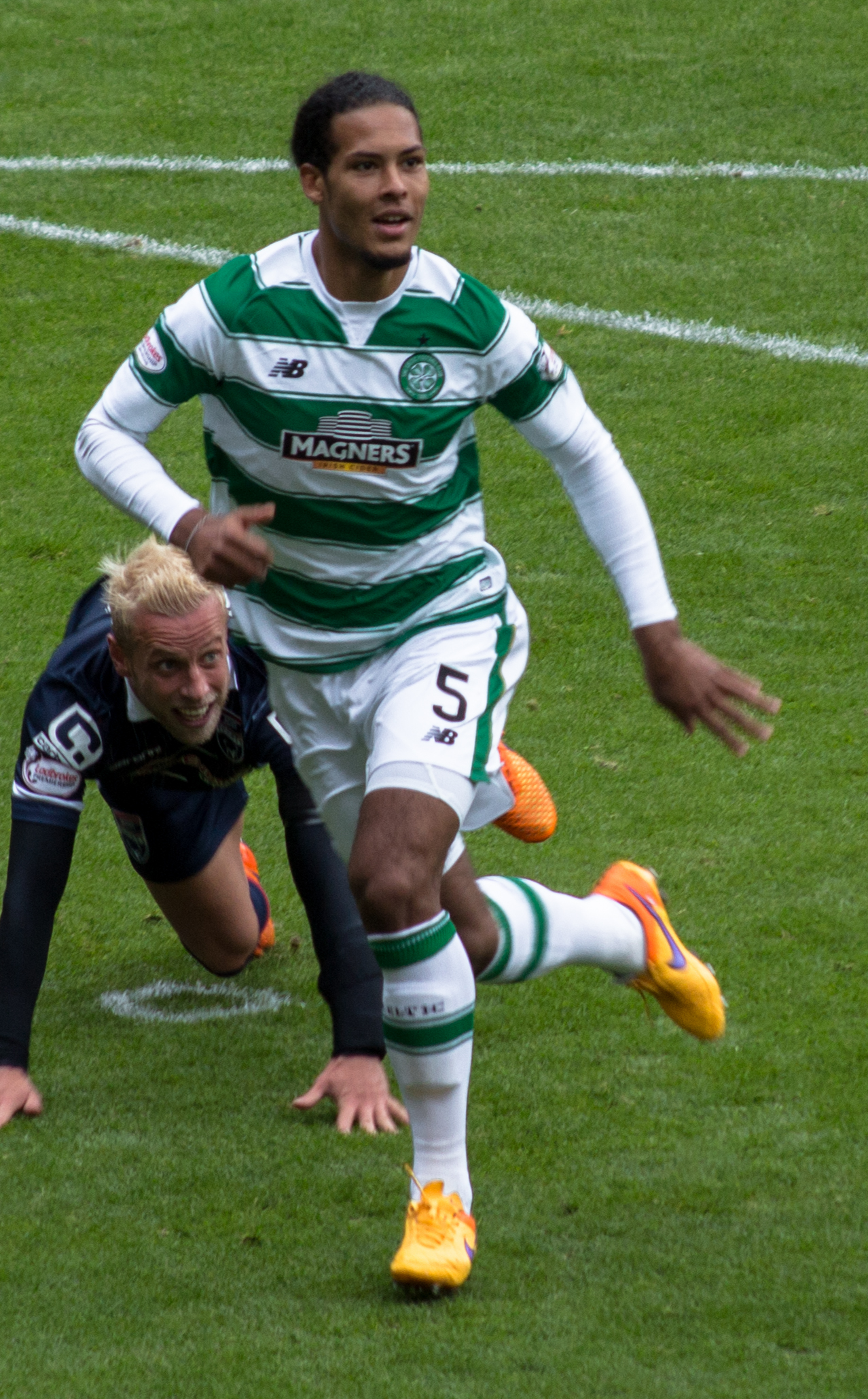 Virgil van Dijk playing for Celtic F.C. in a match against Ross County.